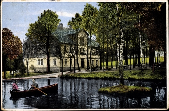 Bad Guter Brunnen Zwoenitz 1921